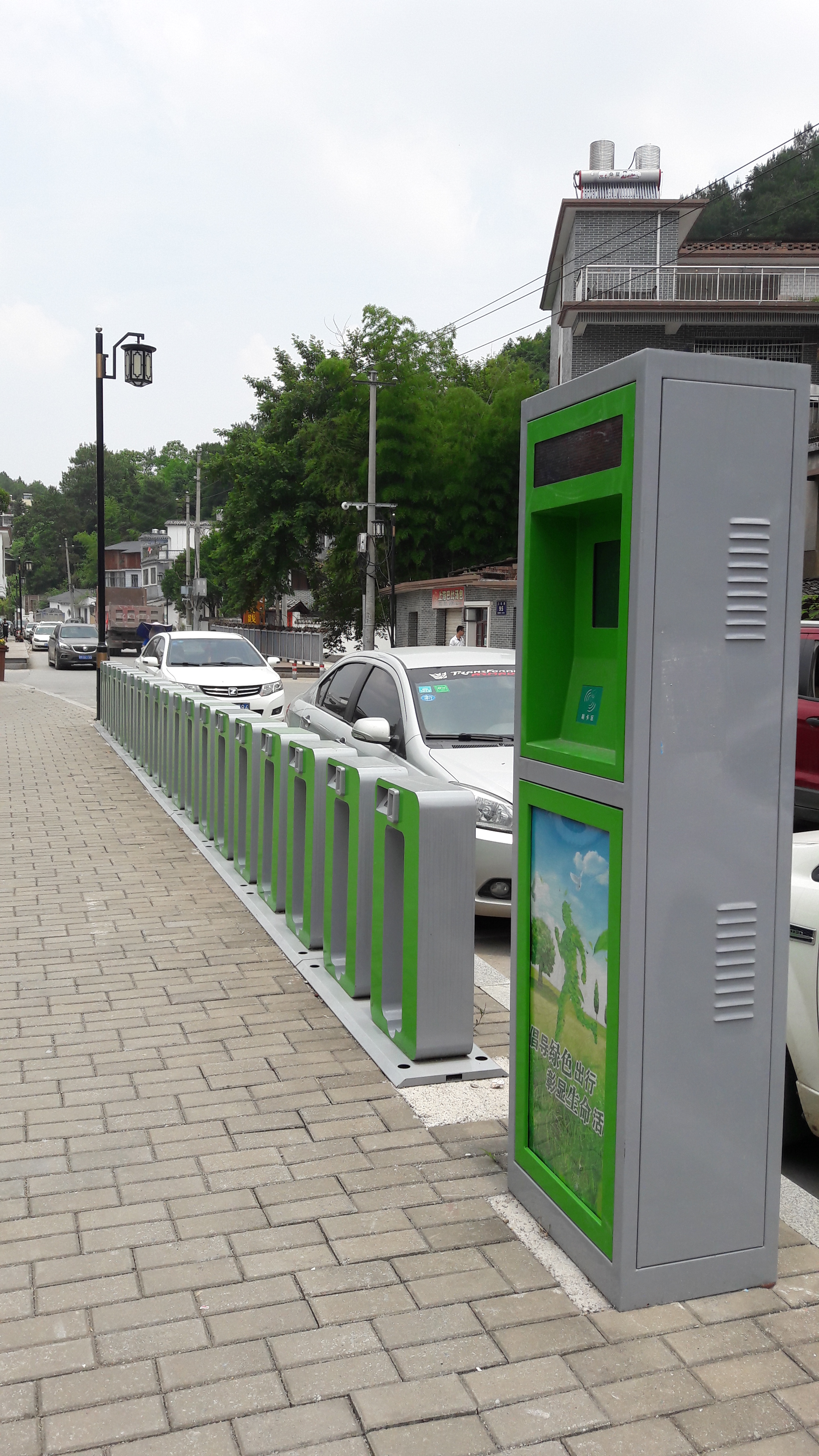 Bycicle rental service in Jingdezhen, Sanbao Road (三宝路), Jiangxi province, China.